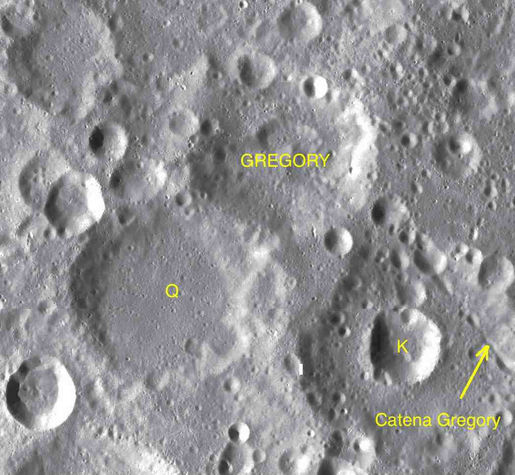 Parts of the charts LAC-65, LAC-83 used for the presentation